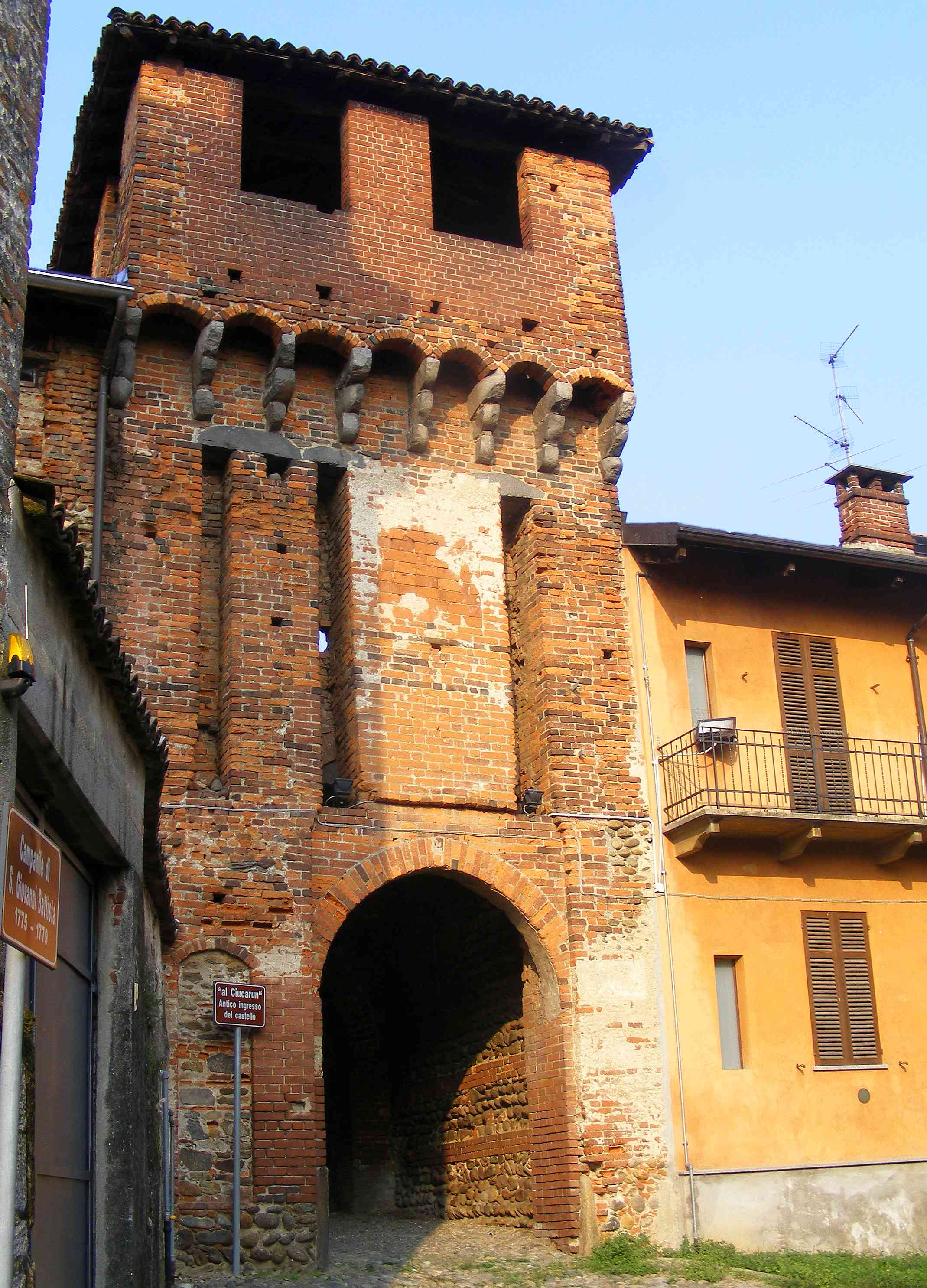 Ponderano (BI, Italy): ancient castle's gate